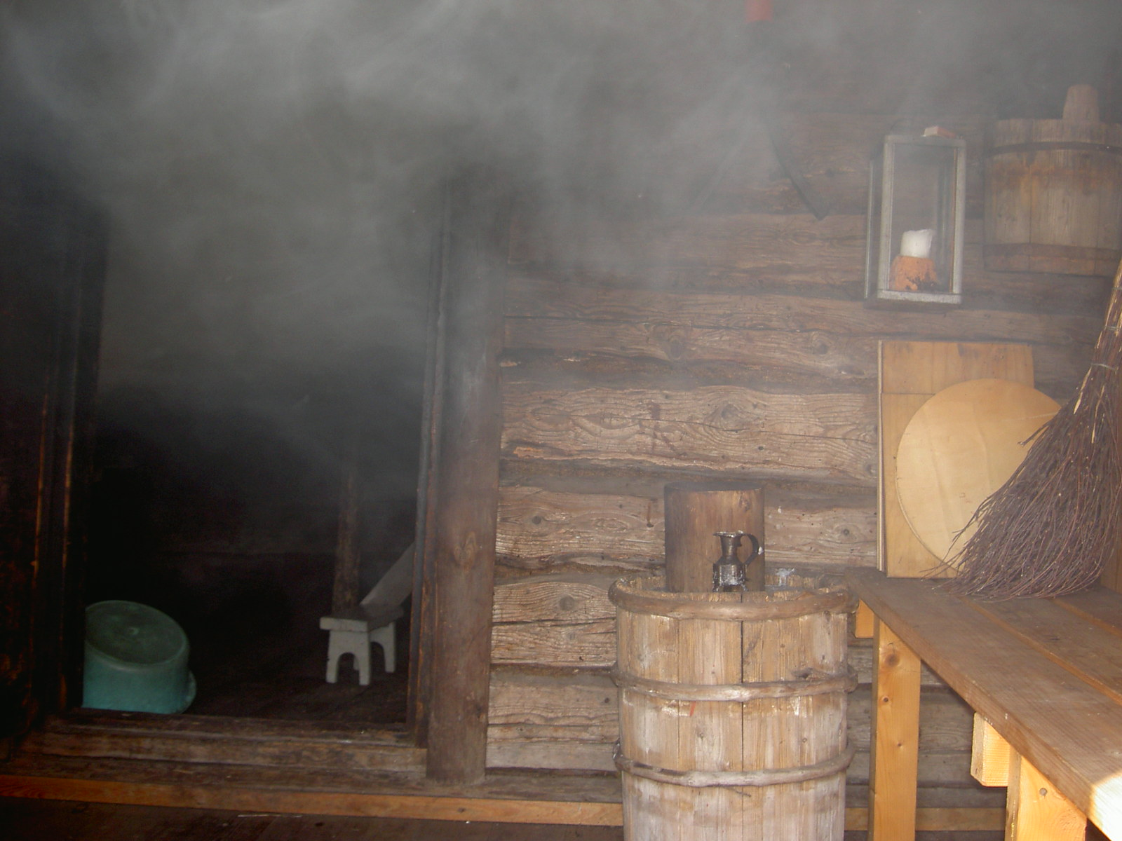 A Finnish smoke sauna in the Uusikaupunki archipelago region, Finland, while heating up.